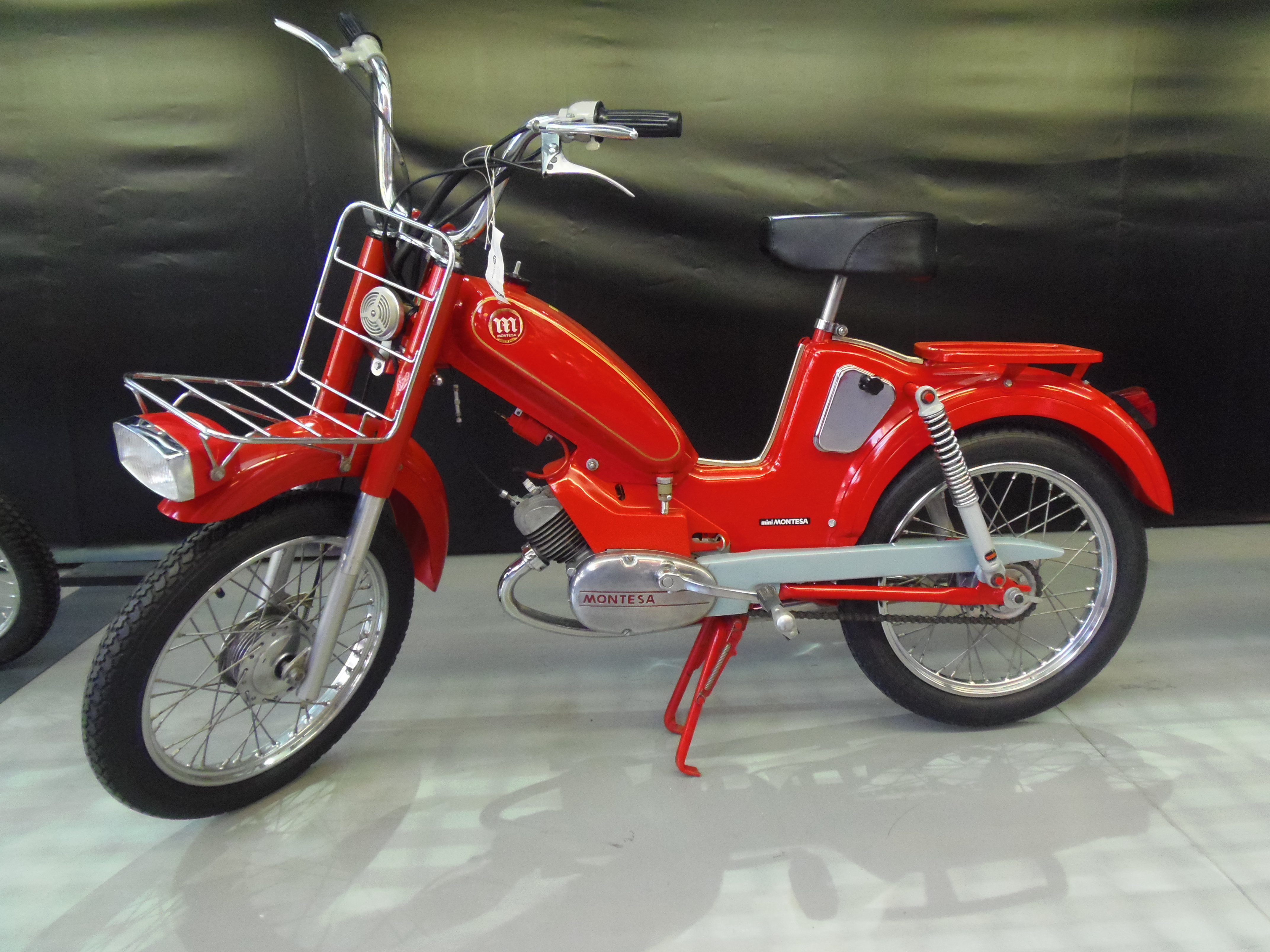 Mini Montesa, 1970